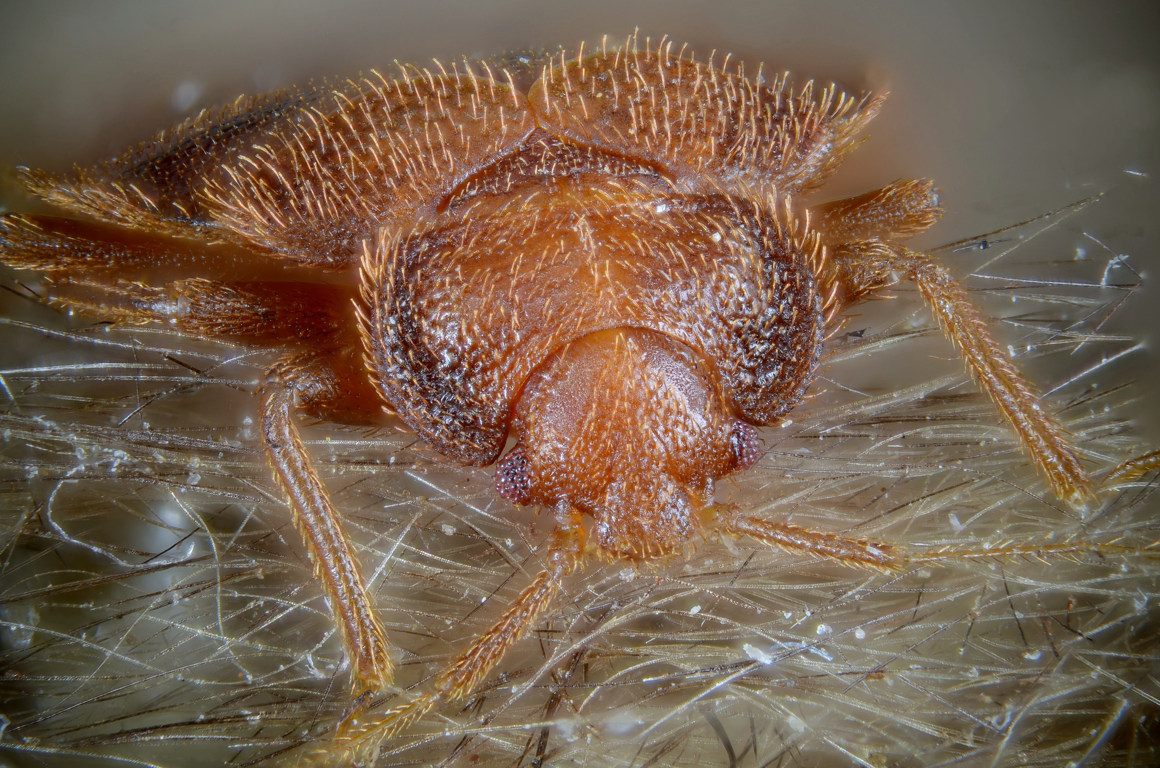 Female of the bed bug – Cimex lectularius – on the fur of one of its hosts, a bat. Scale: bug length approx. 5 mm Technical settings: Focus stack of 78 images. Microscope objective (Nikon achromatic 10x 160/0.25) on bellow